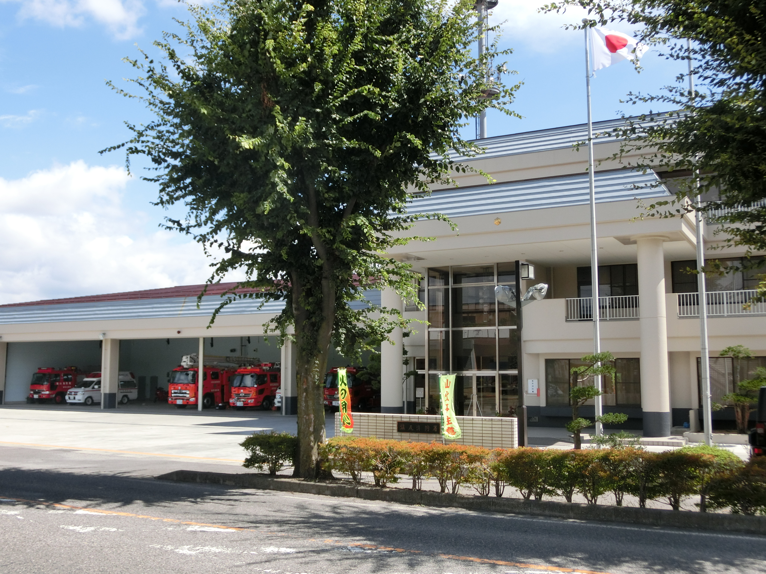 Shiojiri Fire Station